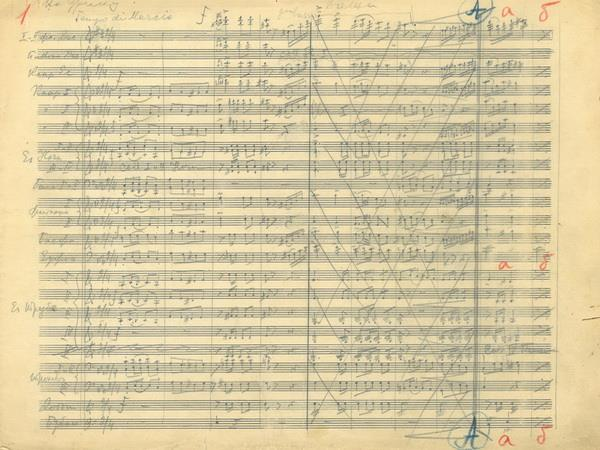 "Mars na Drinu", Stanislav Binicki's original hand-written score, May 26, 1915. "Mars na Drinu", the cover of the hand-written score by Stanislav Binicki, May 26, 1915.